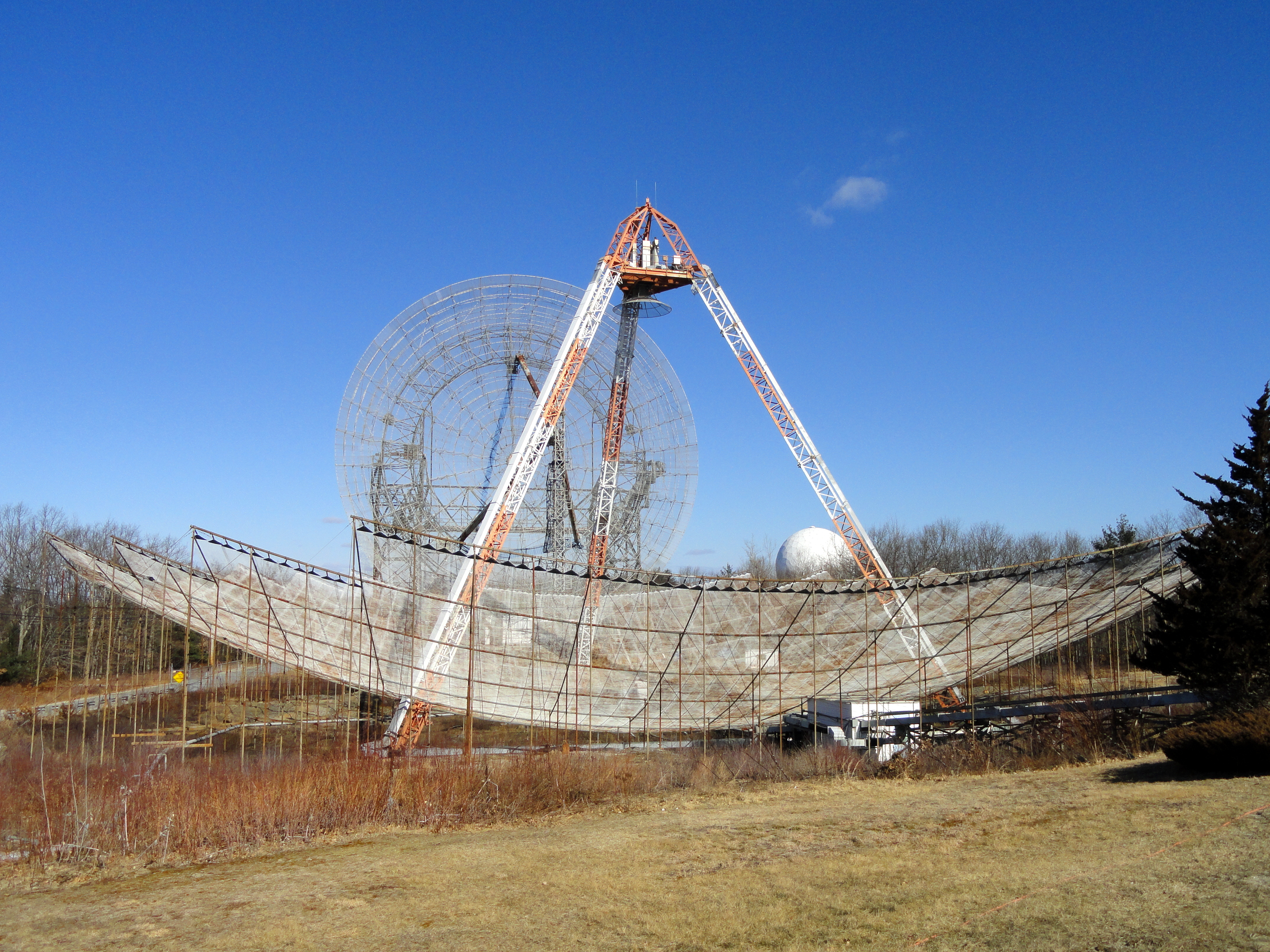 MIT Haystack Observatory, Westford, Massachusetts, USA.